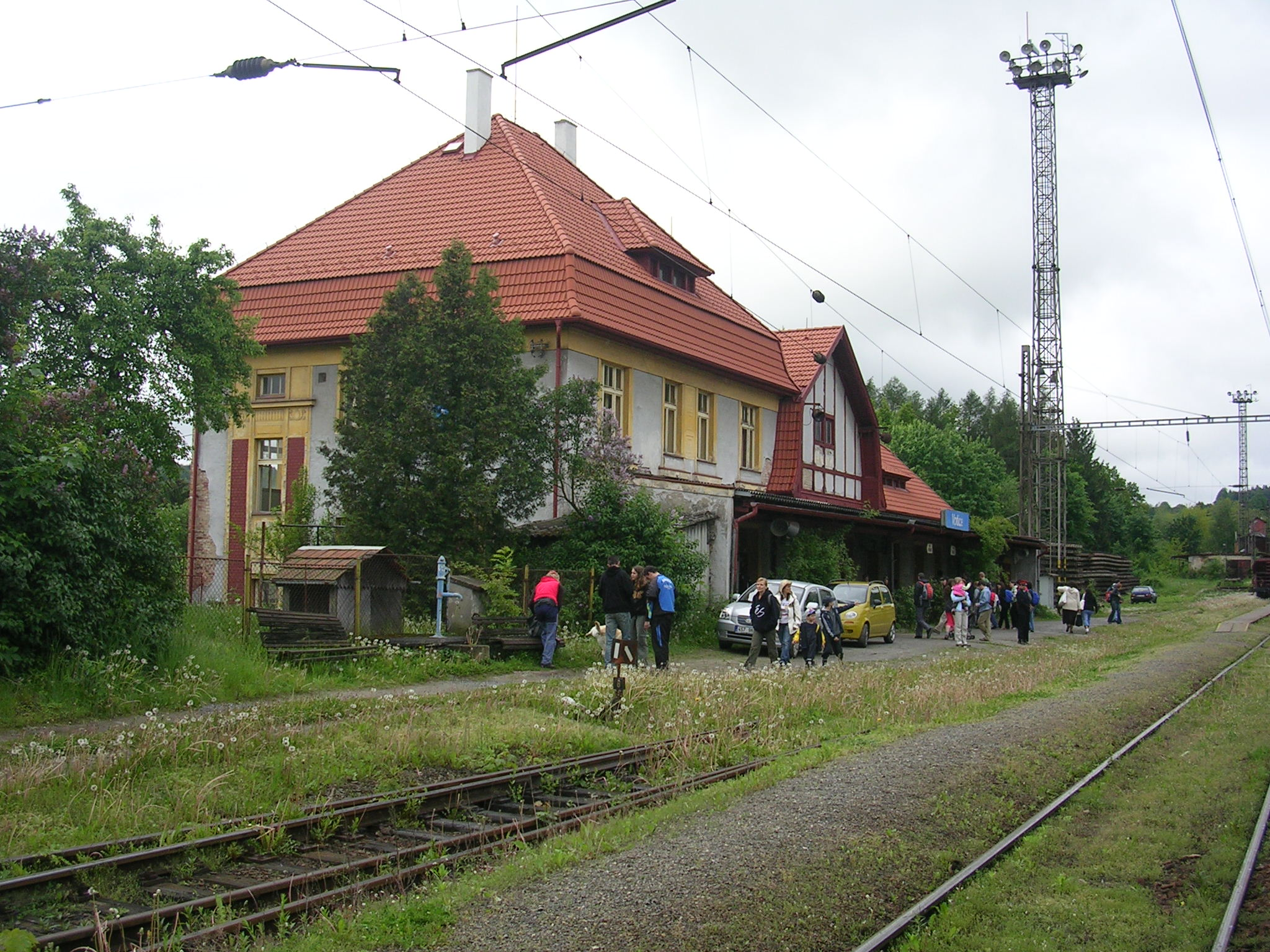 Votice-Beztahov, Benešov District, Central Bohemian Region, the Czech Republic. A train station "Votice".